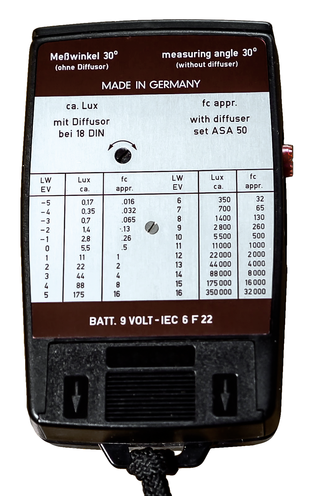 Gossen Profisix Light meter back